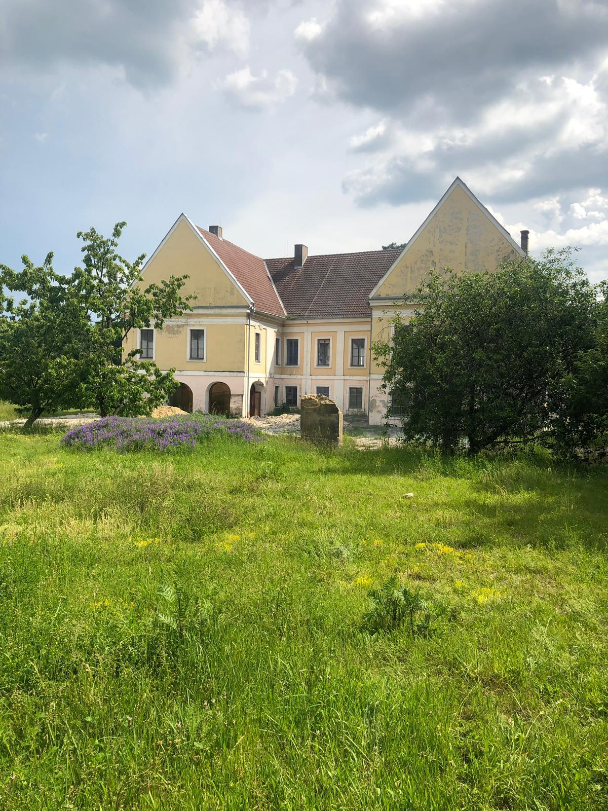 Častkovce Manor, Slovakia